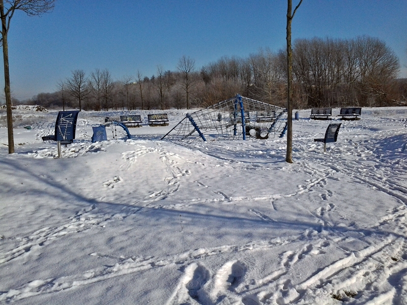 Playground - Blue Wuhl